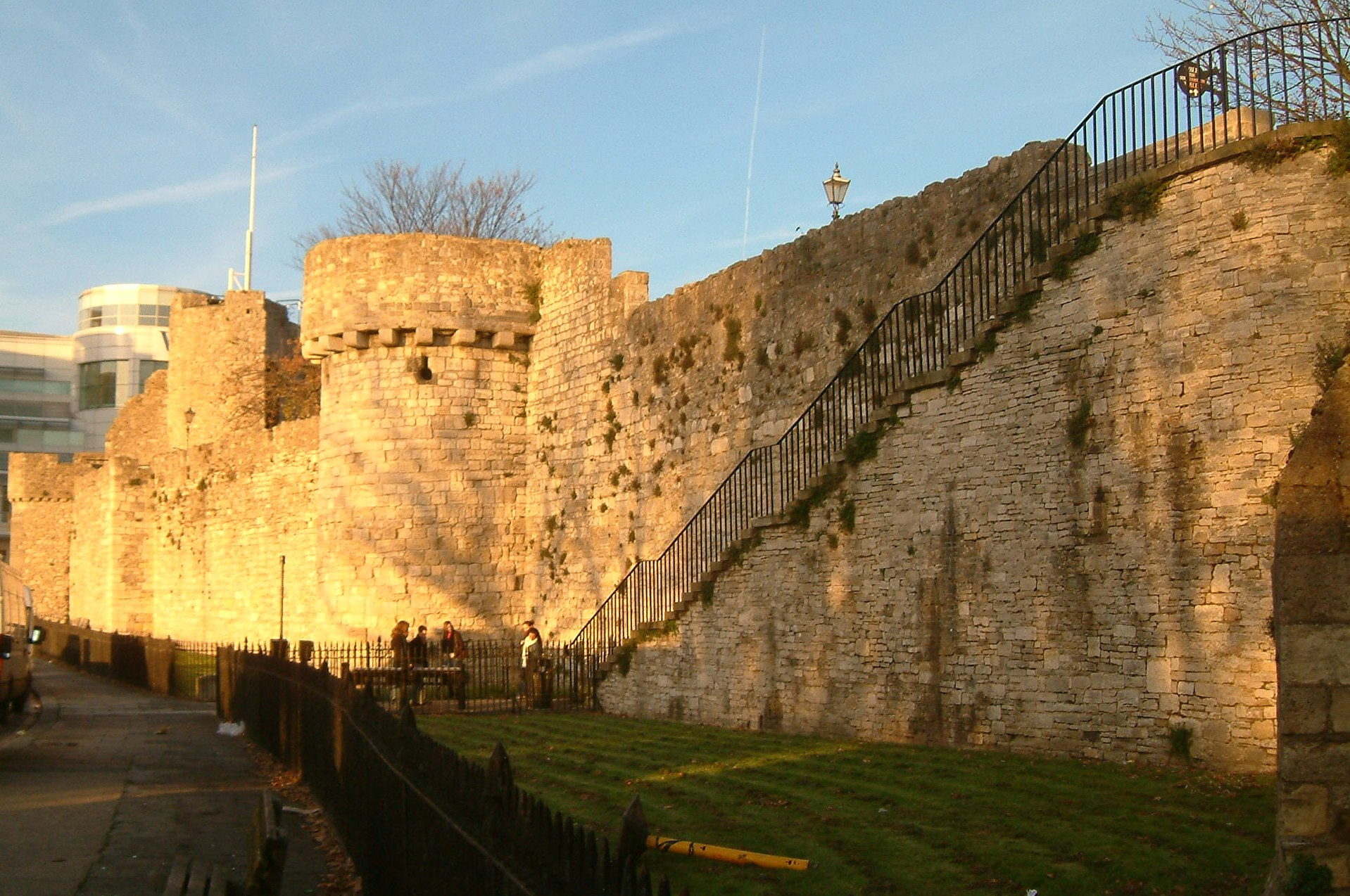 Southampton, England, United-Kingdom